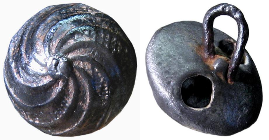 Spanish metal button circa 1650-1675, 12mm diameter.